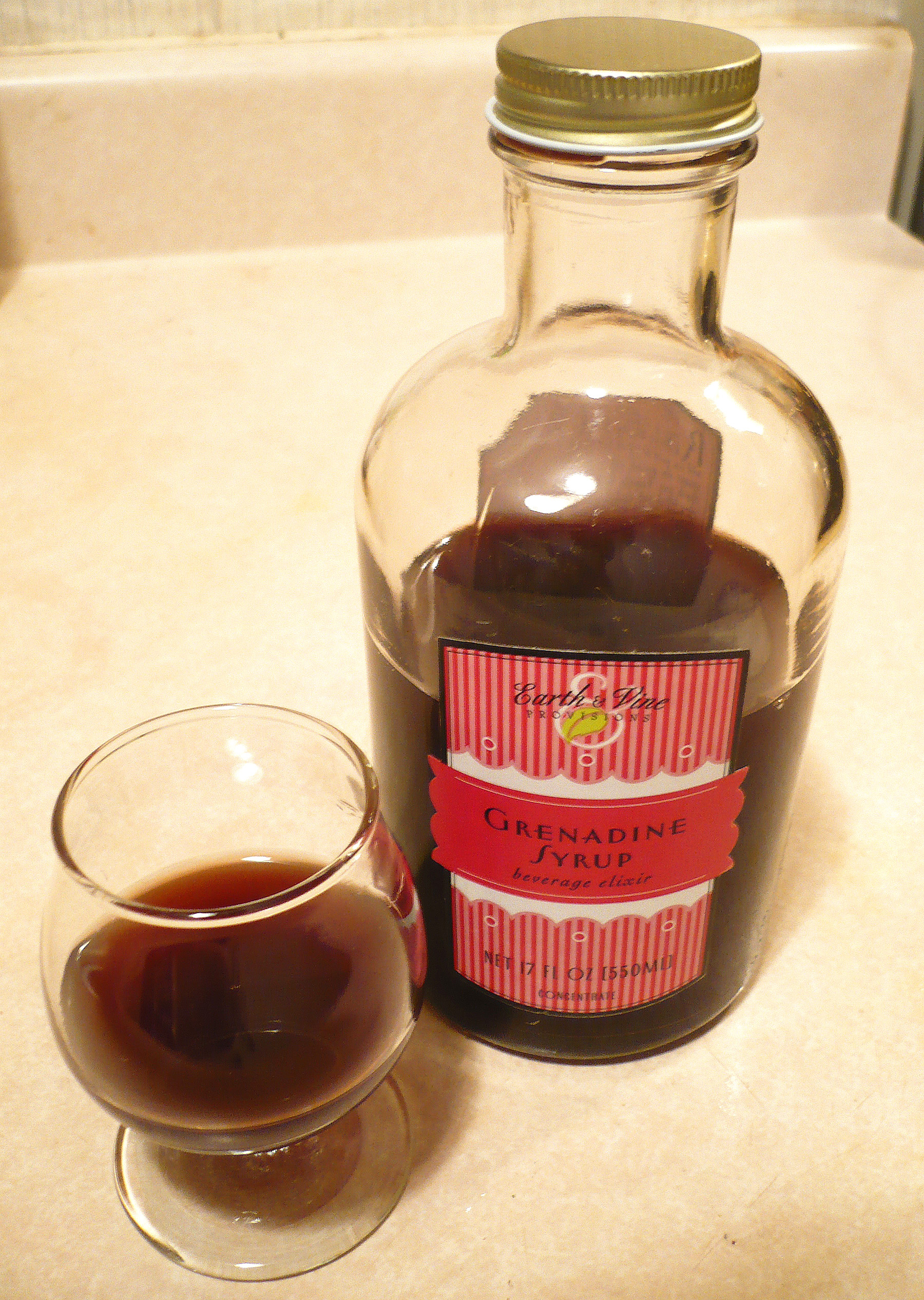 A glass and bottle of commercially produced Grenadine syrup. Photo taken in Kent, Ohio with a Panasonic Lumix digital camera (model DMC-LS75). The grenadine (Earth & Vine Provisions; produced in Loomis, California; ingredients: water, pure cane sugar, and pomegranate concentrate) was purchased in a Cuyahoga Falls, Ohio grocery store.